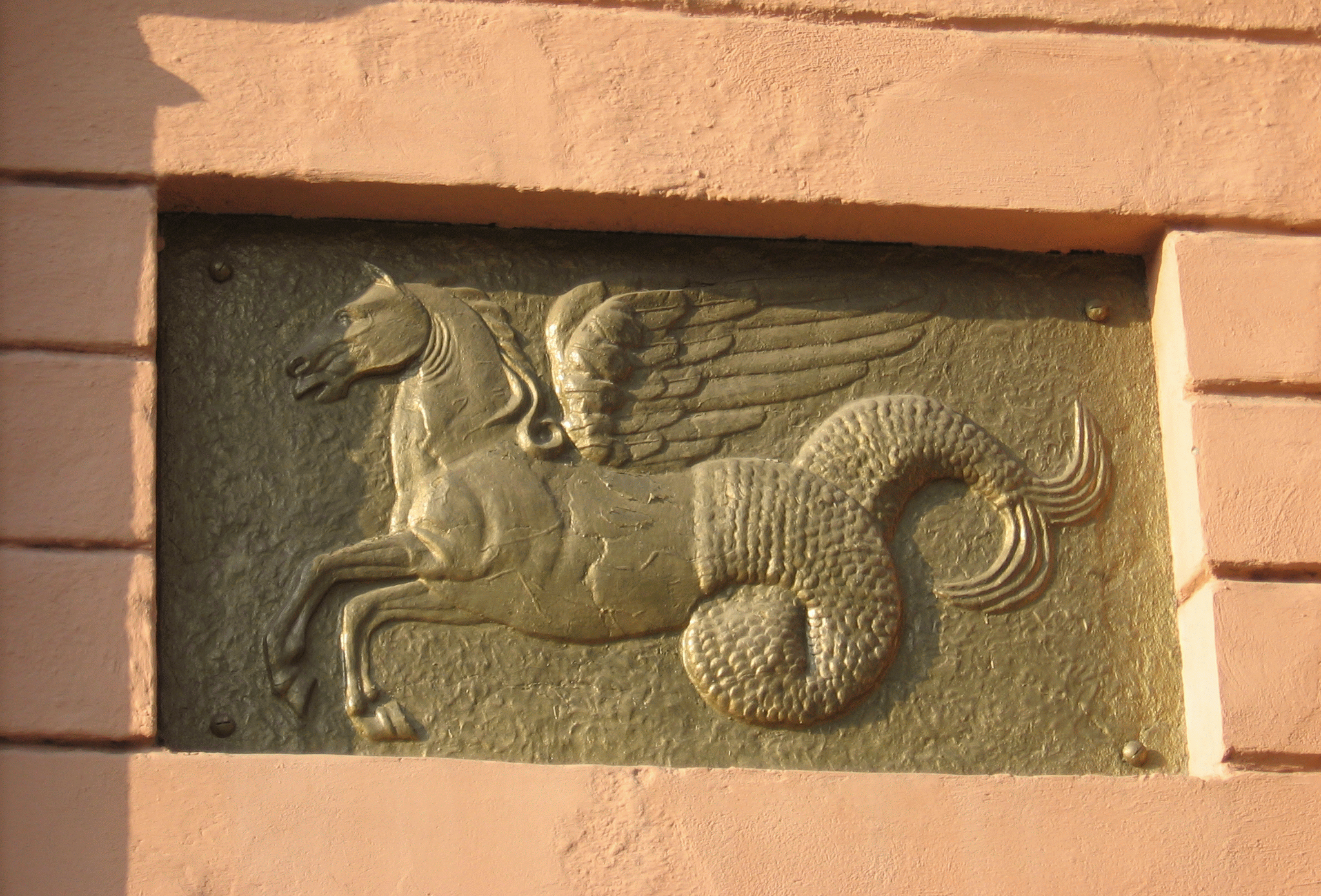 Photographed on the wall of Admiralty in Nikolaev